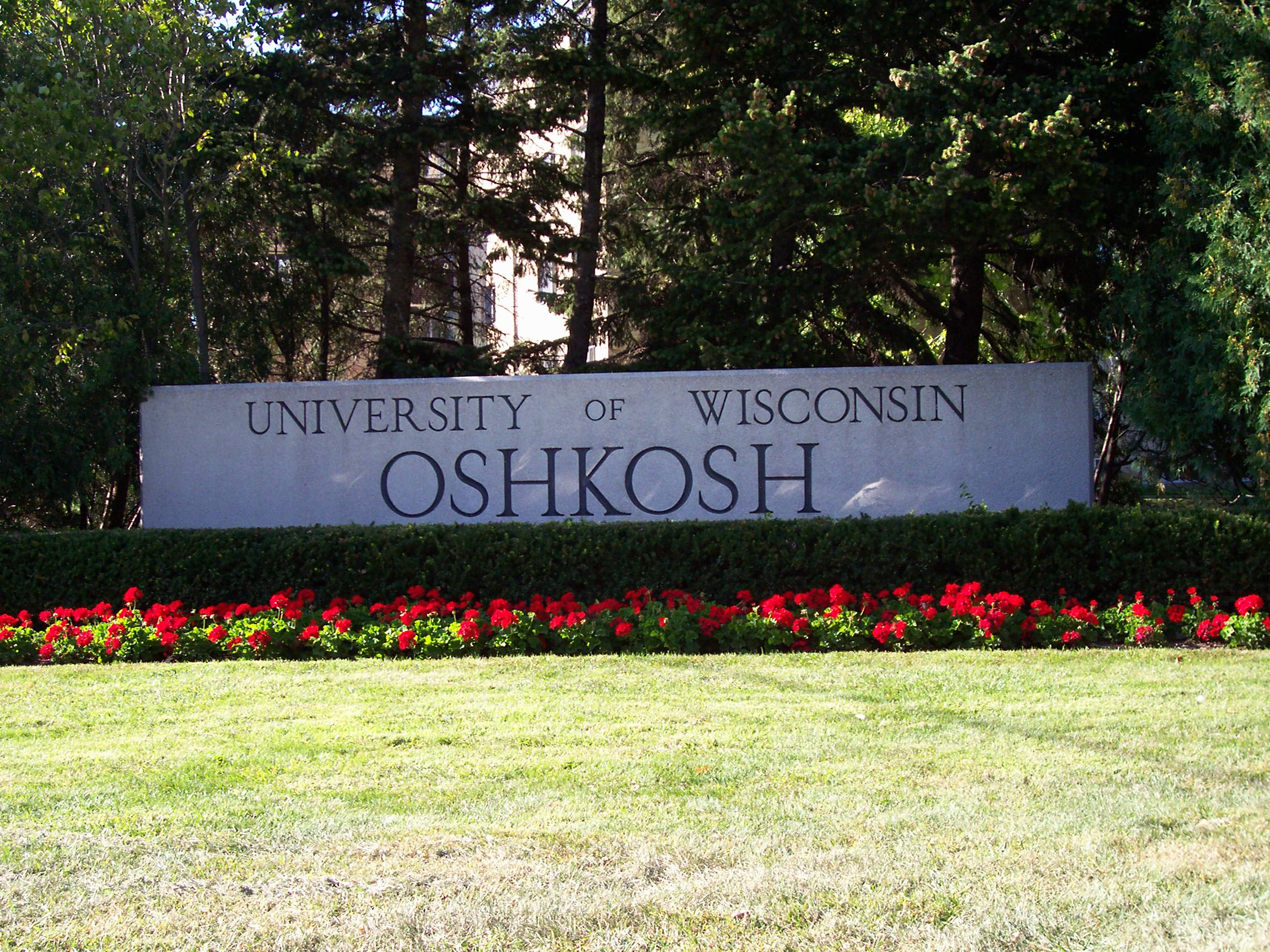 A picture of the welcome sign for the University of Wisconsin-Oshkosh. This image was taken August 24, 2006 by User:Royalbroil